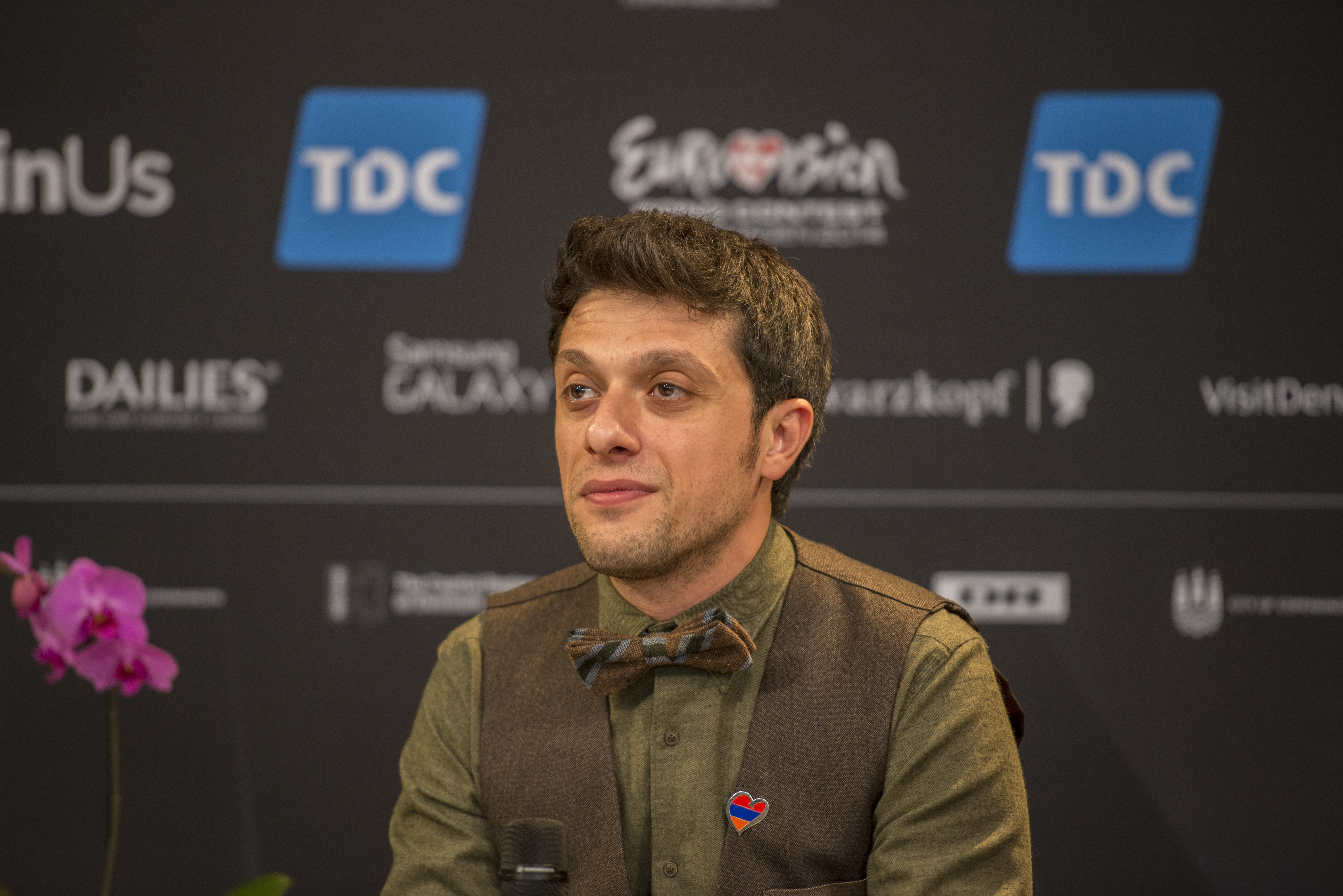 Aram Mp3 at a Meet & Greet during the Eurovision Song Contest 2014 Copenhagen. (Help translate this text)